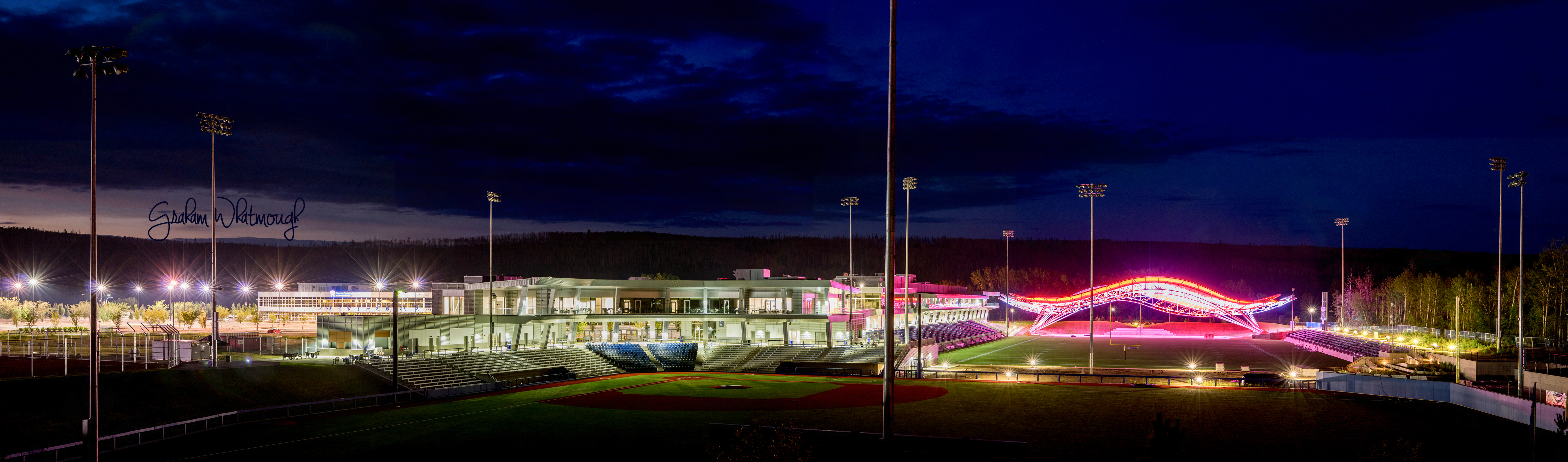 Shell Place and SMS Stadium by Graham Whatmough